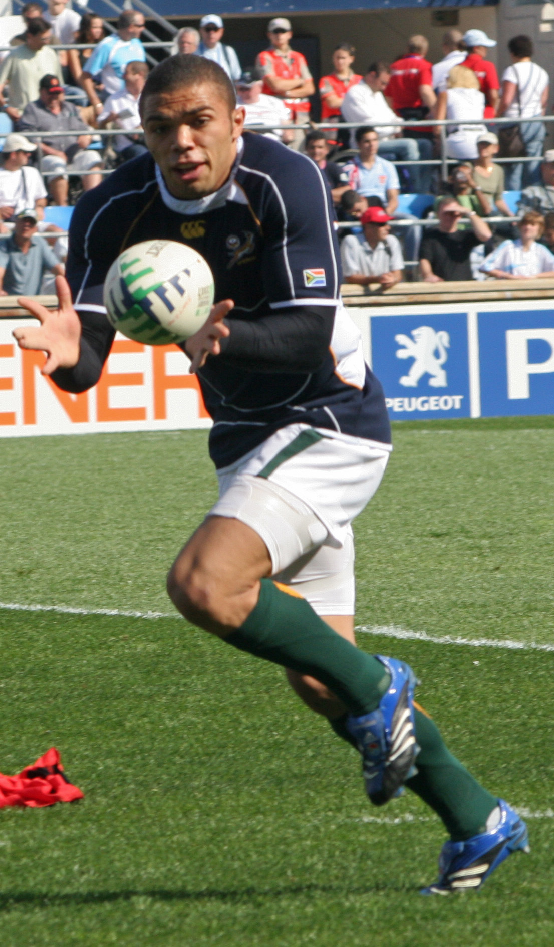 South African rugby union player Bryan Habana at the warm-up before 2007 Rugby World Cup quater-final against Fiji, that taken place in Marseille.